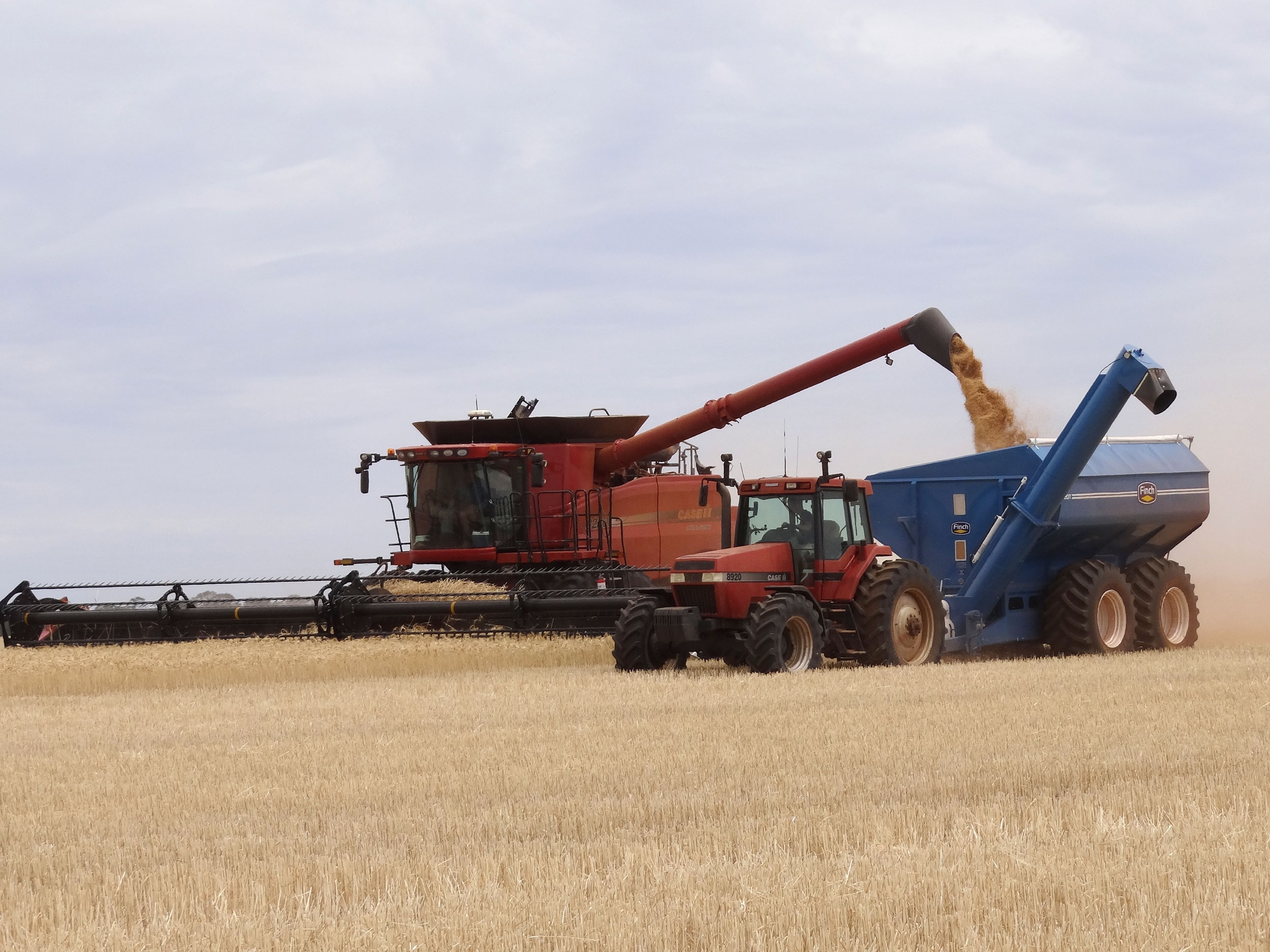 Combine unloading into Chaser Bin